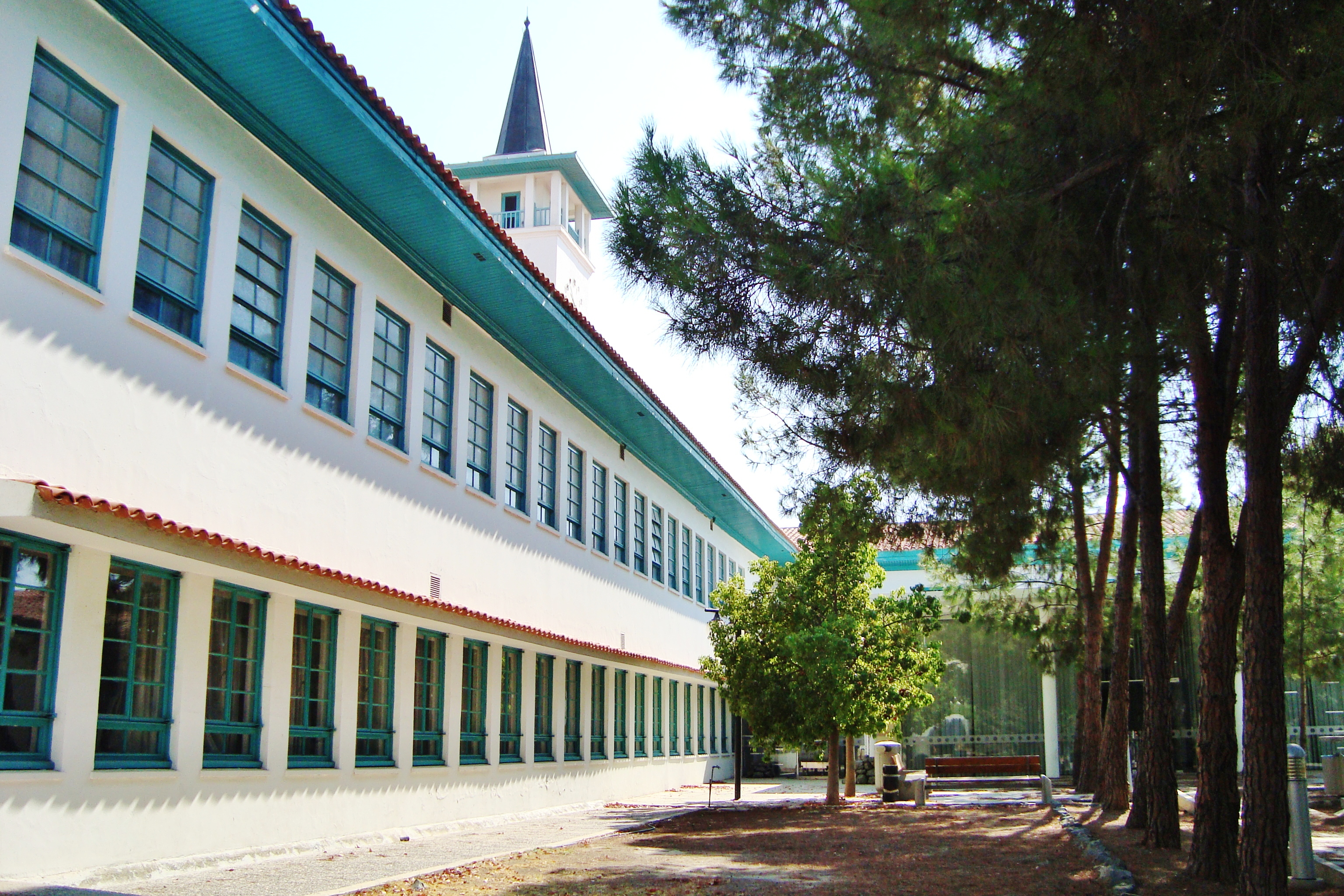 University of Cyprus in Nicosia capital of the Republic of Cyprus